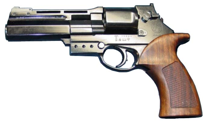 Photo of a Mateba Unica 6 Gun that I own